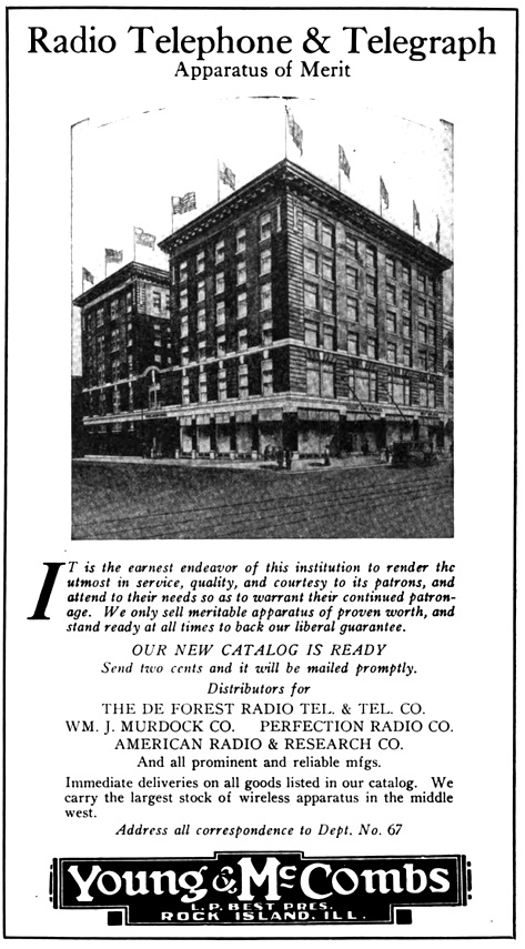 Advertisement for radio equipment sold by the Young & McCombs department store in Rock Island, Illinois. Features a photograph of the Best Building where the store was located.